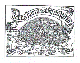 Exlibris of Hanns Igler Knabensberger († 1501) ,the oldest Exlibris.